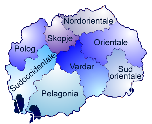 Macedonian statistical regions, Italian nouns